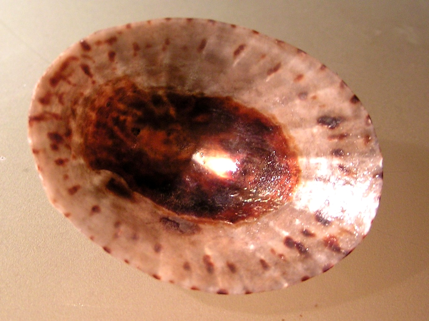 Nacella magellanica J. F. Gmelin, 1791, a limpet from the family Nacellidae; South Falkland Islands